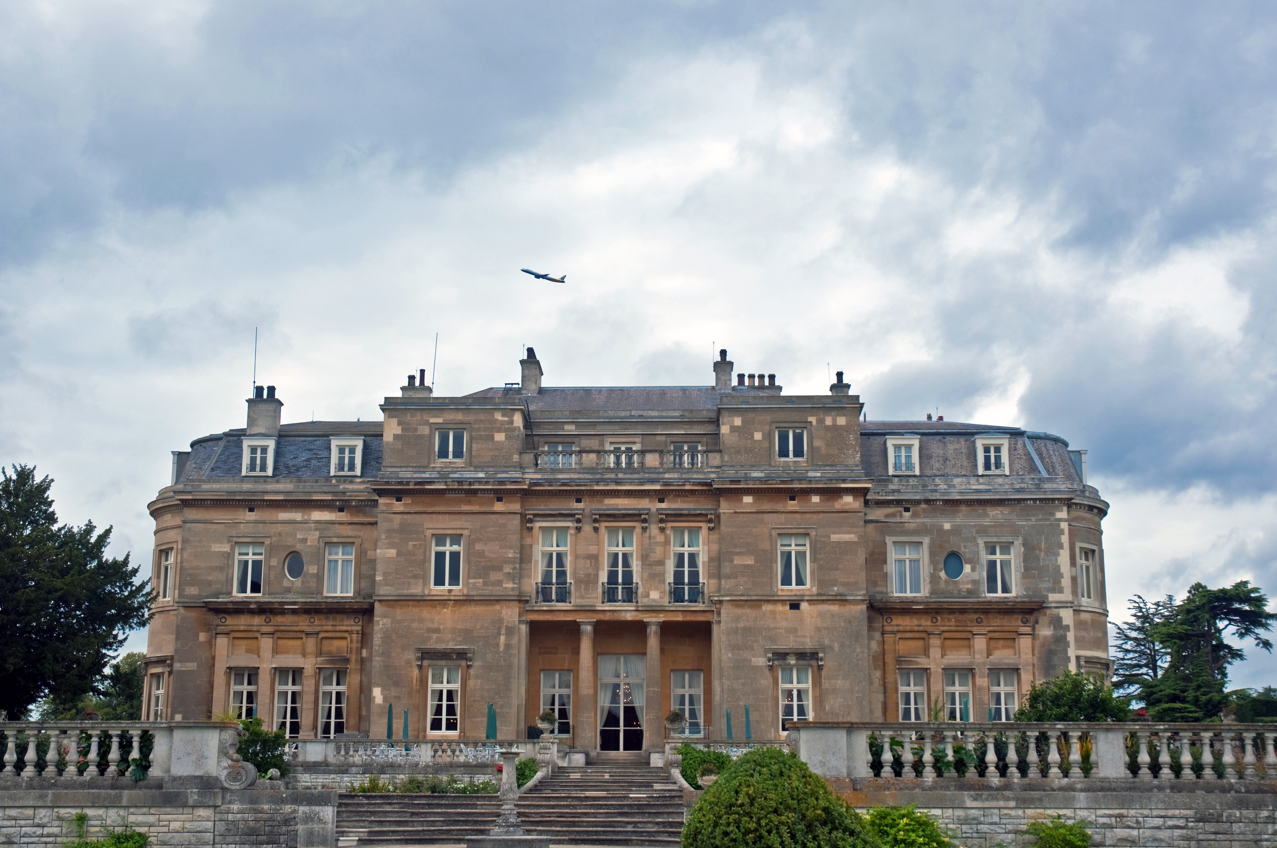 Luton Hoo, Bedfordshire, England, 19 Sept. 2010